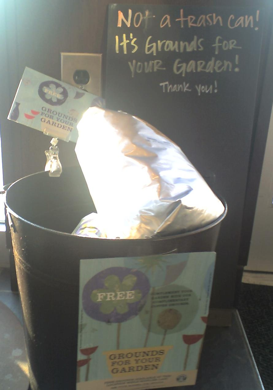 Grounds for Your Garden, the Starbucks recycling scheme. Coffee grounds are good for the garden.